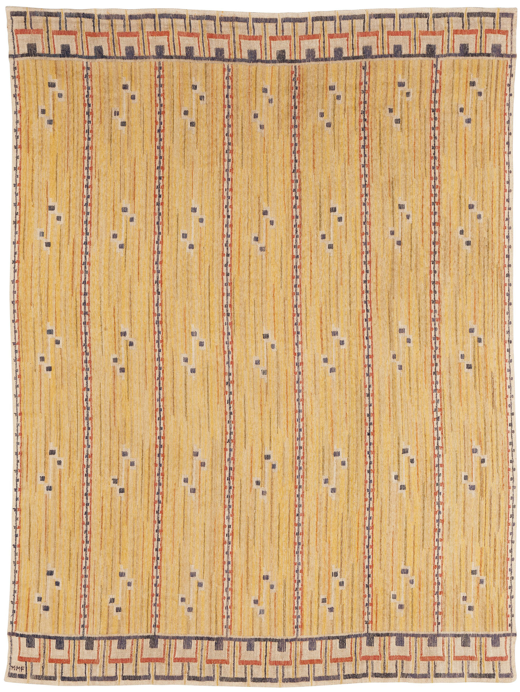 A Swedish carpet "Gult draperi" by Marta Maas-Fjetterstrom from 1942. Collection Doris Leslie Blau